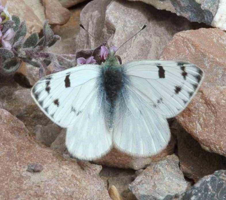 Lofty Bath White Pontia callidice Family Pieridae Upper view of Indian Lofty Bath White (Pontia callidice kalora). A high altitude butterfly photgraphed by Harshad Karandikar at Chandratal Lake, near Manali at 14,000 feet in July 2005. Donated by him for placement on Wikimedia Commons for specific use with Indian Butterlies wikibase. Uploaded by Nature Loader on his behalf. Nature Loader 09:20, 12 May 2006 (UTC)